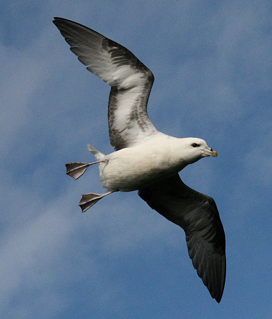 Fulmar near Vik, Iceland, August 2008